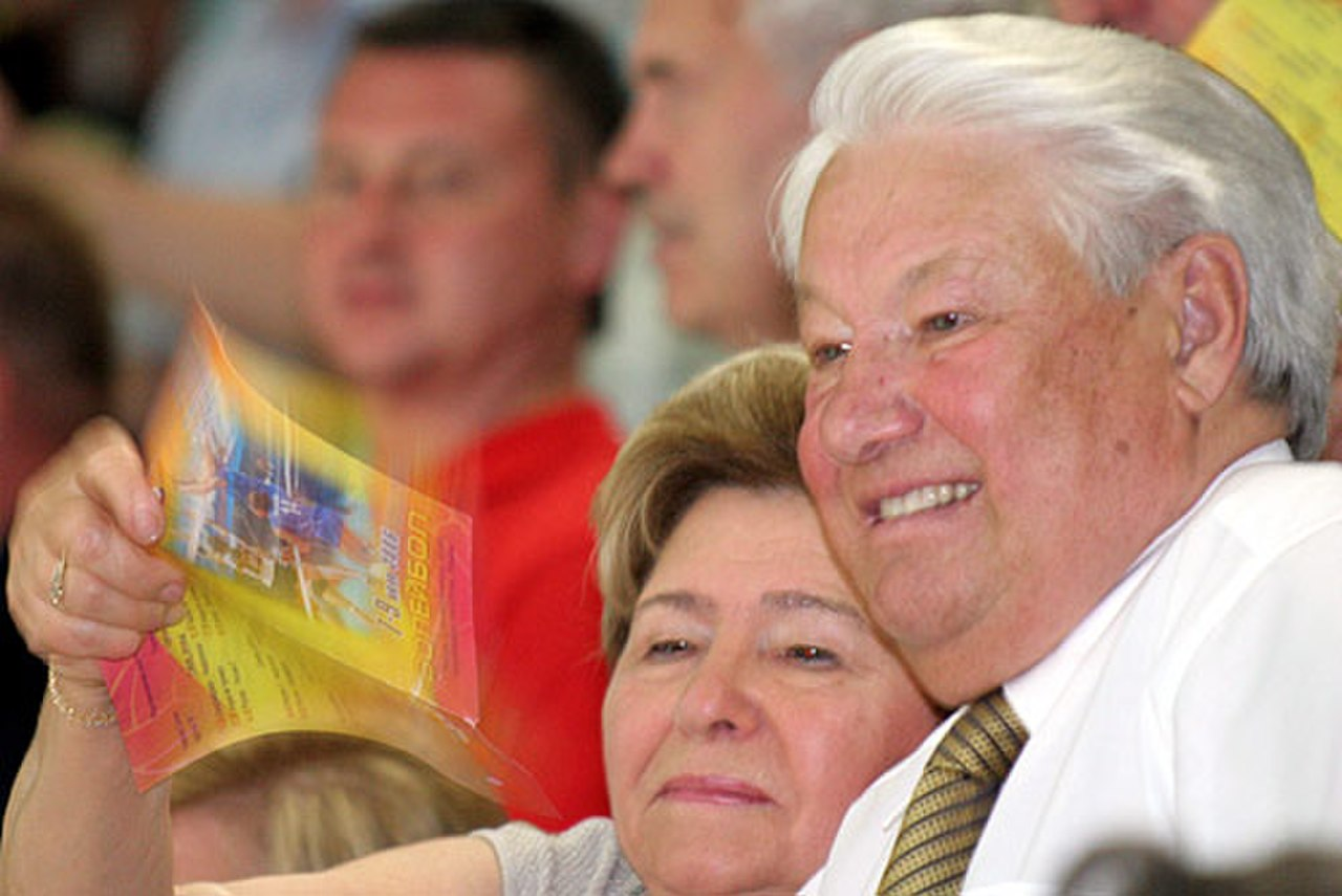 YEKATERINBURG. With Naina Iosifovna at the fourth International Tournament for Women\'s National Volleyball Teams for the first President of Russia Boris Yeltsin Cup.